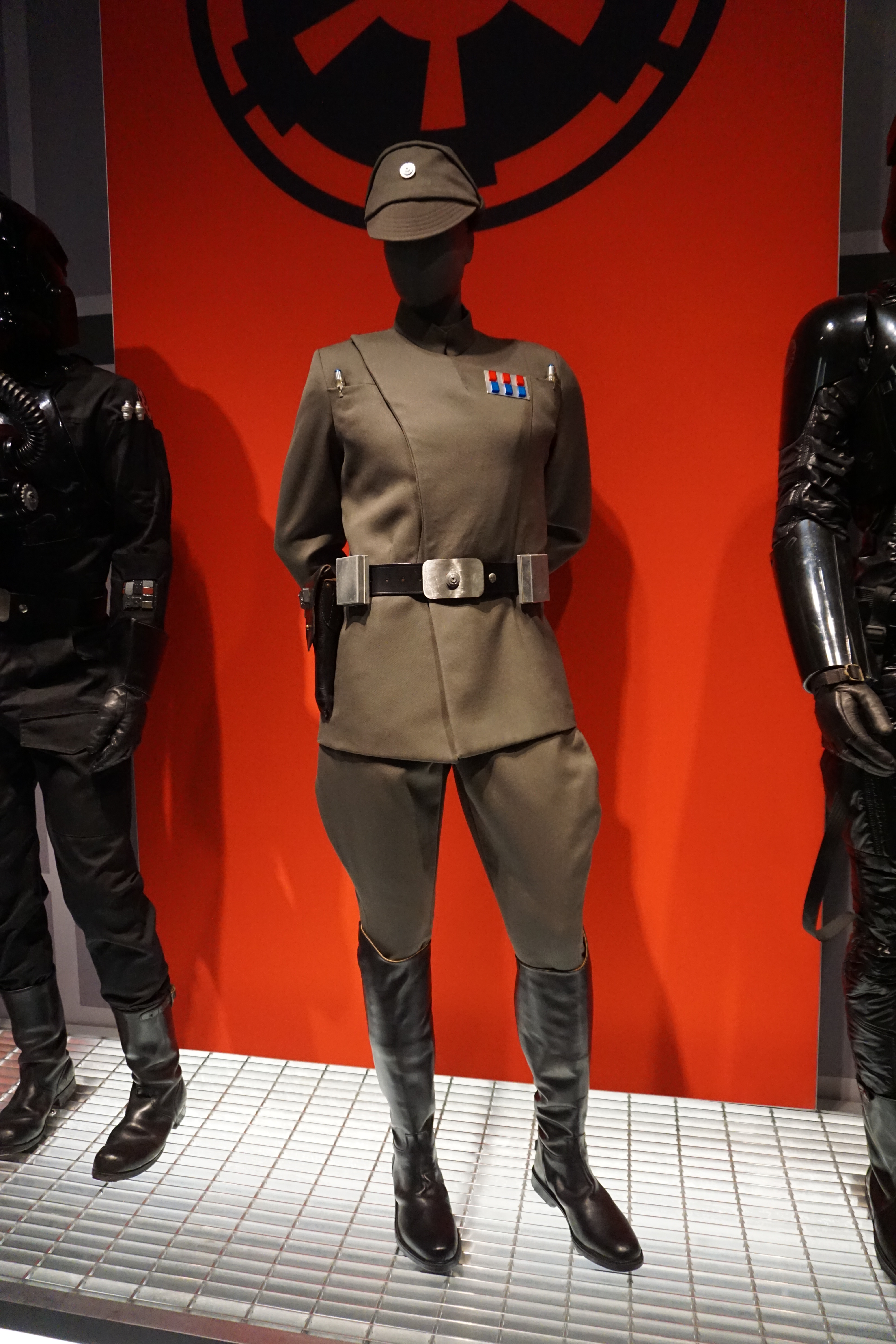 An Imperial officer's costume, hat, code cylinders, holster, and blaster from Star Wars: Episode VI – Return of the Jedi on display at the Star Wars and the Power of Costume traveling exhibit at the Detroit Institute of Arts in Detroit, Michigan (United States).